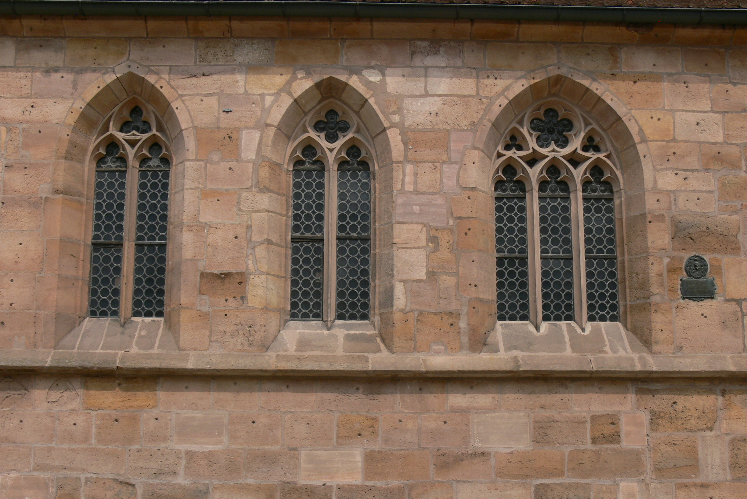 Langenzenn ( Bavaria ). City church - gothic tracery windows.